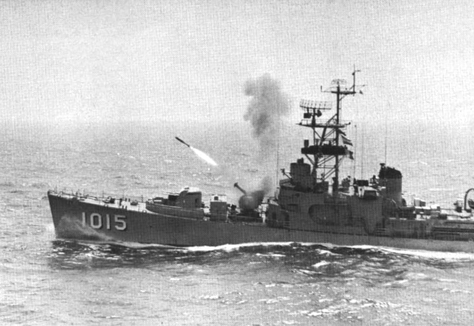 The U.S. Navy destroyer escort USS Hammerberg (DE-1015) launching a RUR-4 Weapon Alpha, circa in 1962.